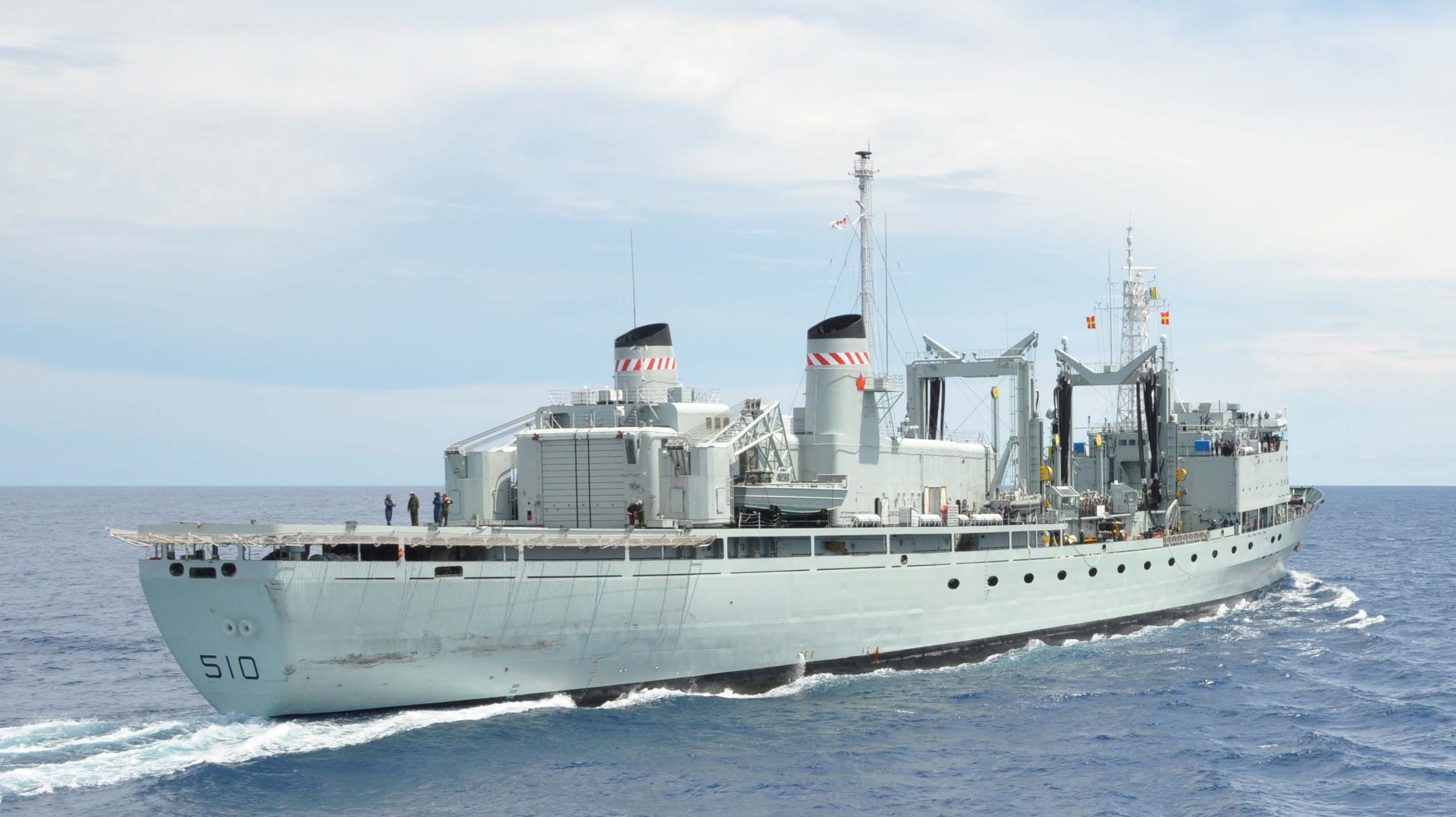 CARIBBEAN SEA (Sept 11, 2013) Commanding Officer, USS Rentz, Cdmr. Lance Lantier lines up the ship with the Canadian supply ship HMCS Preserver (AOR 510 during a replenishment at sea evolution as part of the annual UNITAS maritime exercise while assigned to U.S. 4th Fleet. (U.S. Navy photo by Lt. Cmdr. Corey Barker/released)